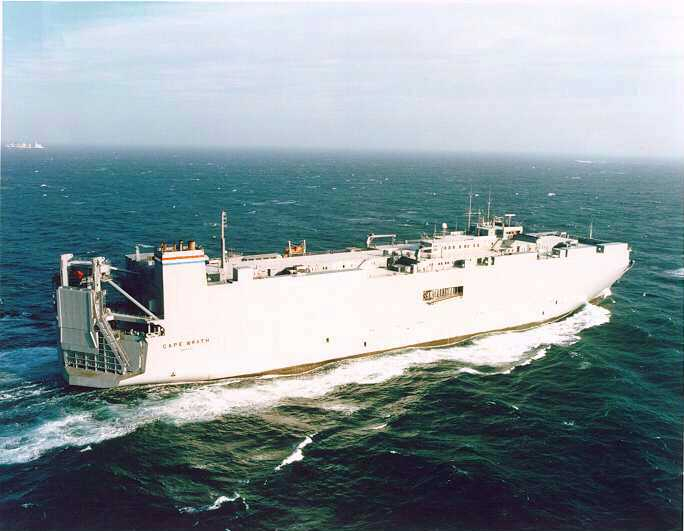 SS Cape Wrath underway